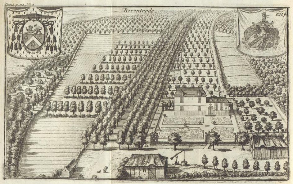 Castellum Berentrode (Bonheiden, BE)